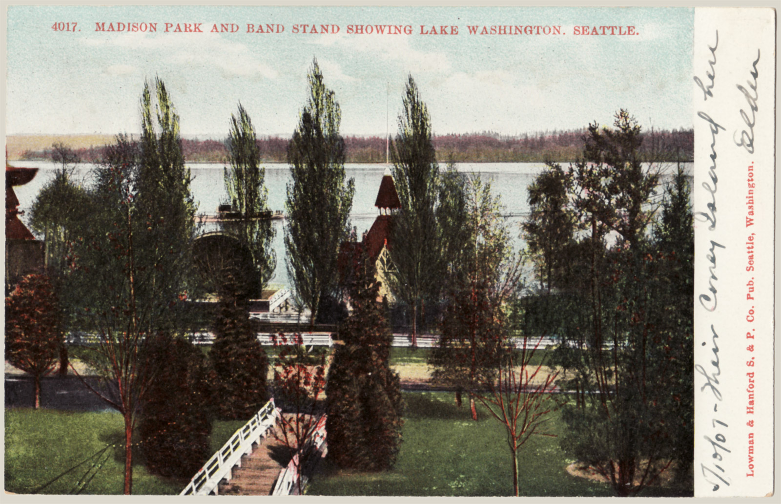 Madison Park in Seattle, postcard dated May 10, 1907. Front: "5/10/07 — Their Coney Island here. Elden." Printed: "Front: 4017. Madison Park And Band Stand Showing Lake Washington, Seattle." Reverse states "Selichrom — Adolph Selige, Pub. Co. St. Louis — Leipzig."